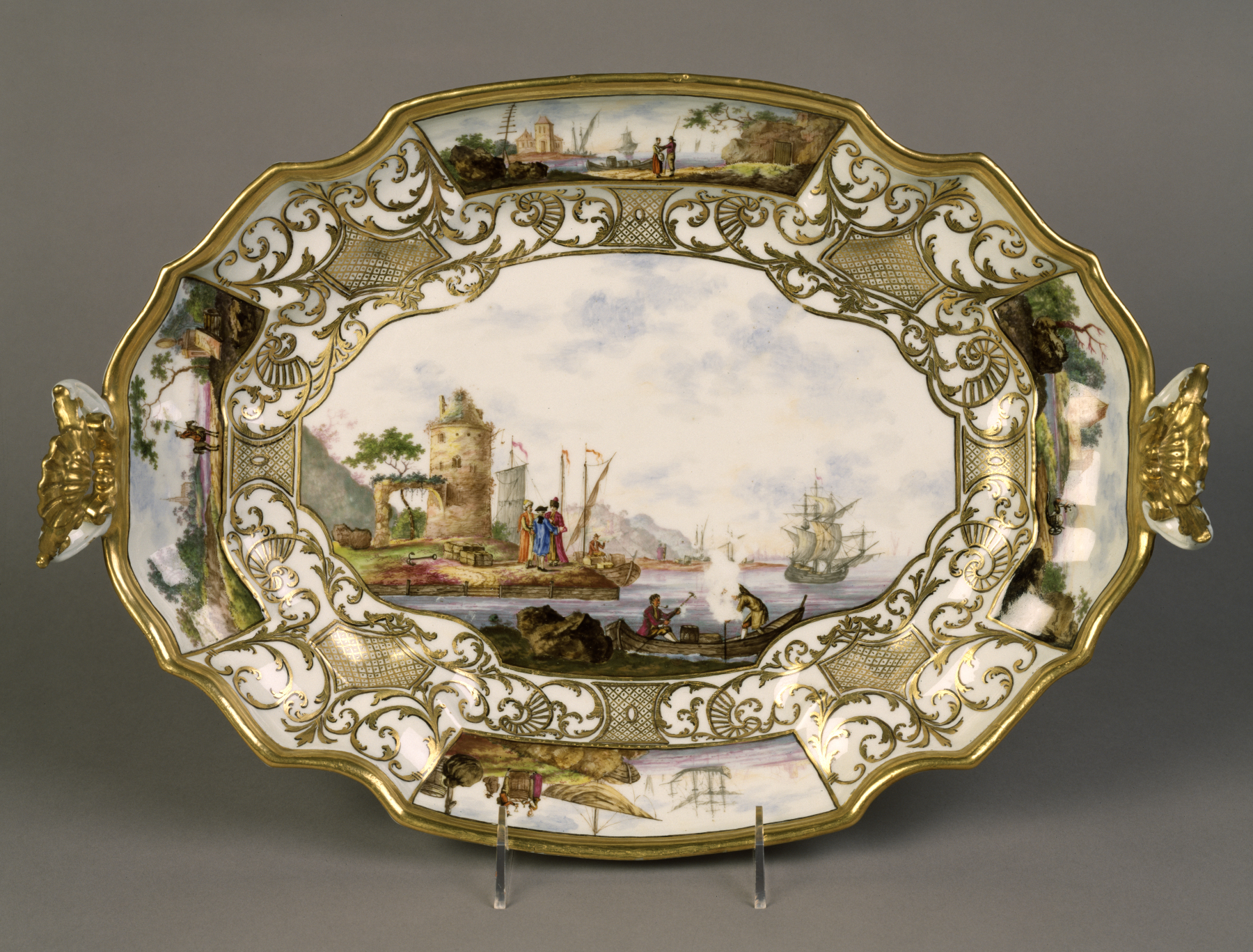 Many of the innovations made by Johann Gregorius Heroldt at the Meissen factory between 1720 and ca. 1750, are reflected in this platter and its matching tureen. Typical of this era are the harbor scenes painted in new enamel colors, the large floral motifs, and the distinctive lambrequin patterns of gilding known as "Laub und Bendelwerk." A similar tureen with the identical gilding was illustrated in Koller, Auction Preview, Zurich, March 2008, p. 28. It is dated ca. 1745.